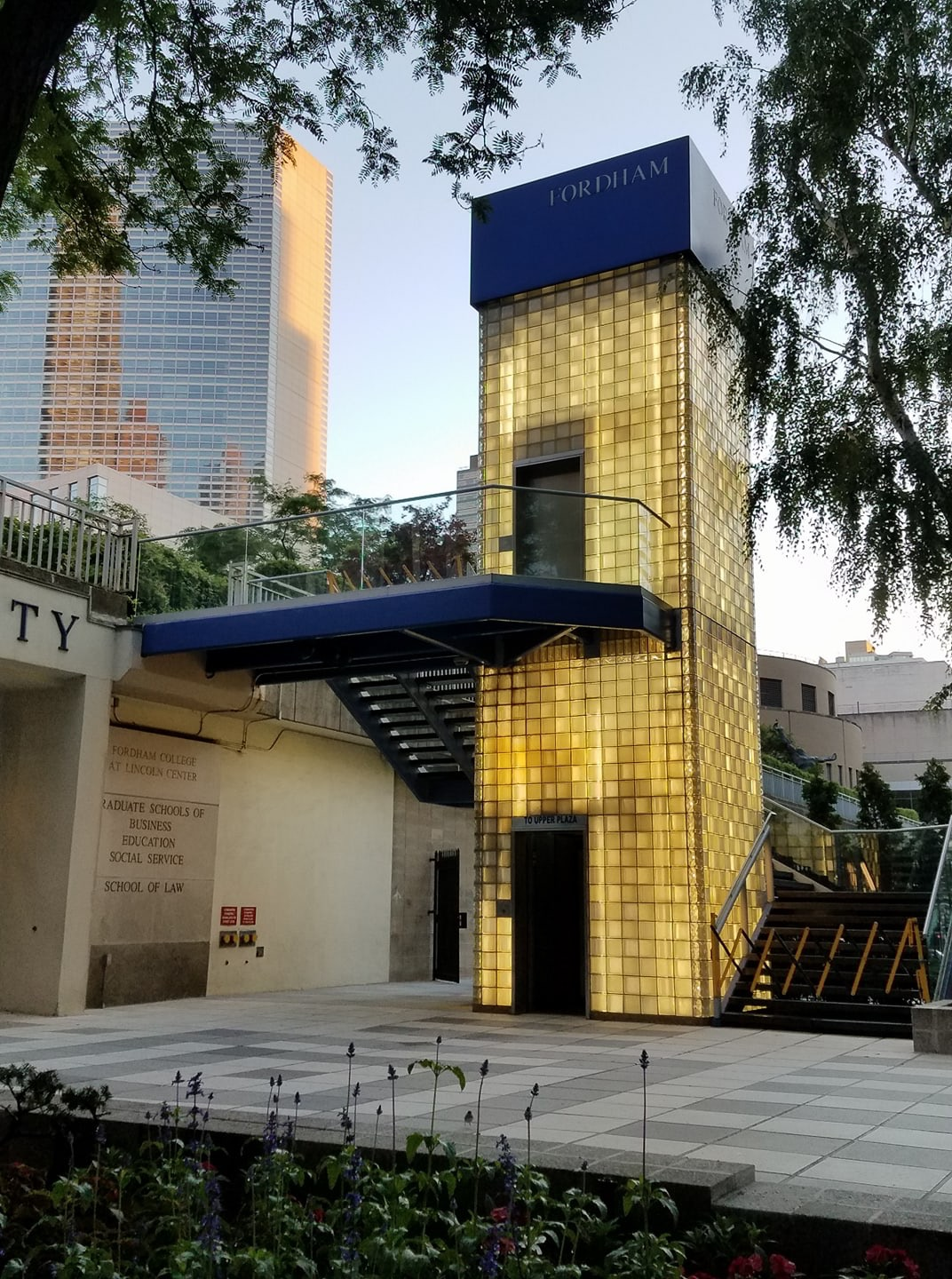 Fordham's illuminated glass brick tower, at dawn